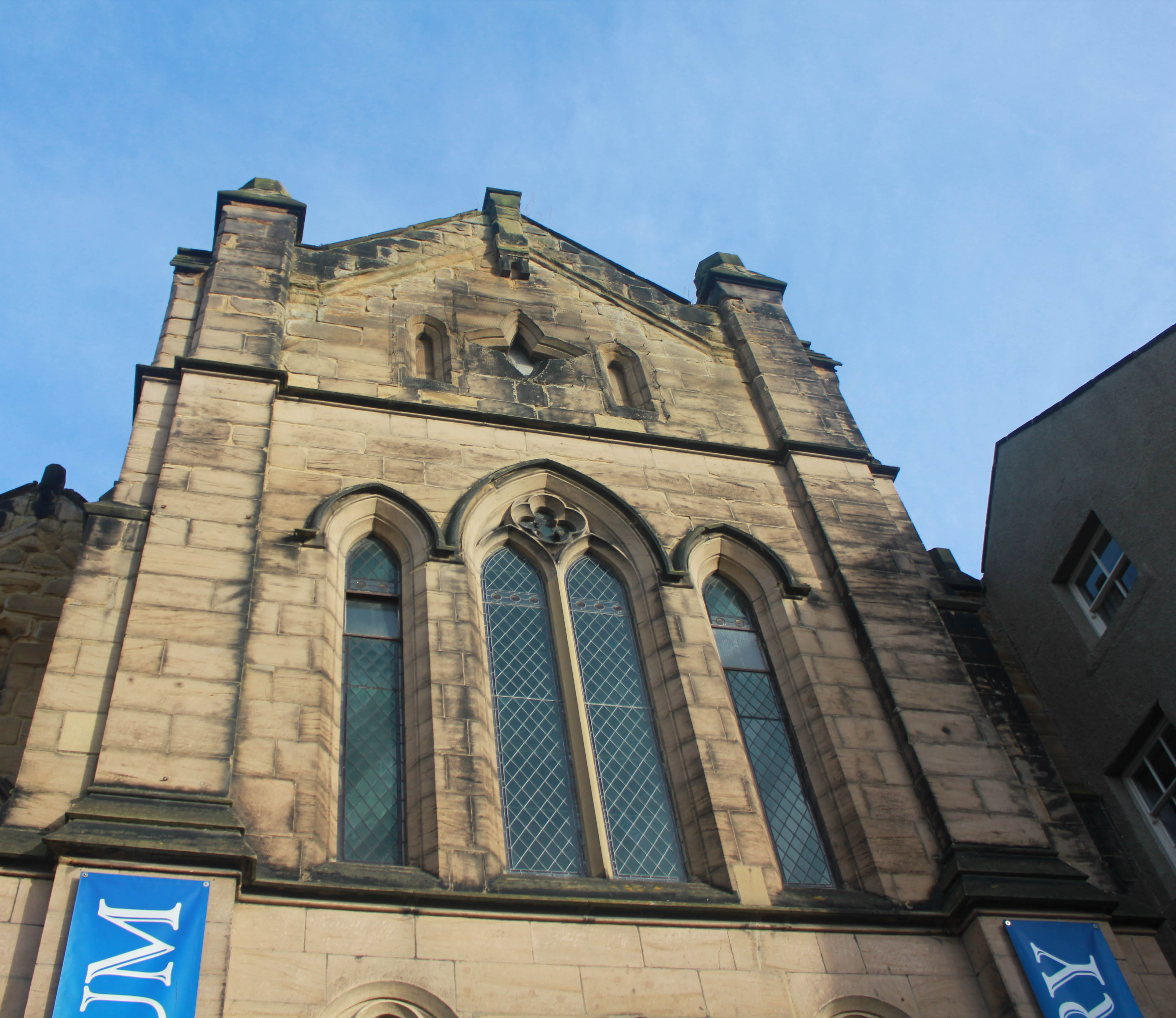 Middle bay of the facade of Bailiffgate Museum, Alnwick, Northumberland, seen from the south